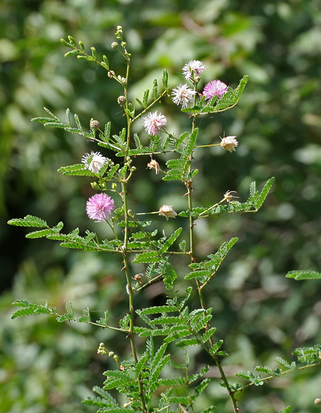 Gulabi babhul Mimosa hamanta in Hyderabad , India.